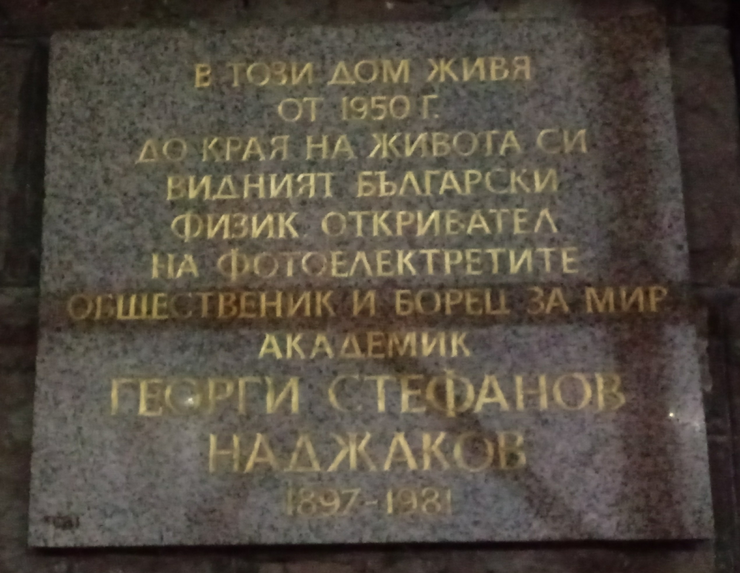 Georgi Nadzhakov memorial plaque, Tulovo Str., Sofia